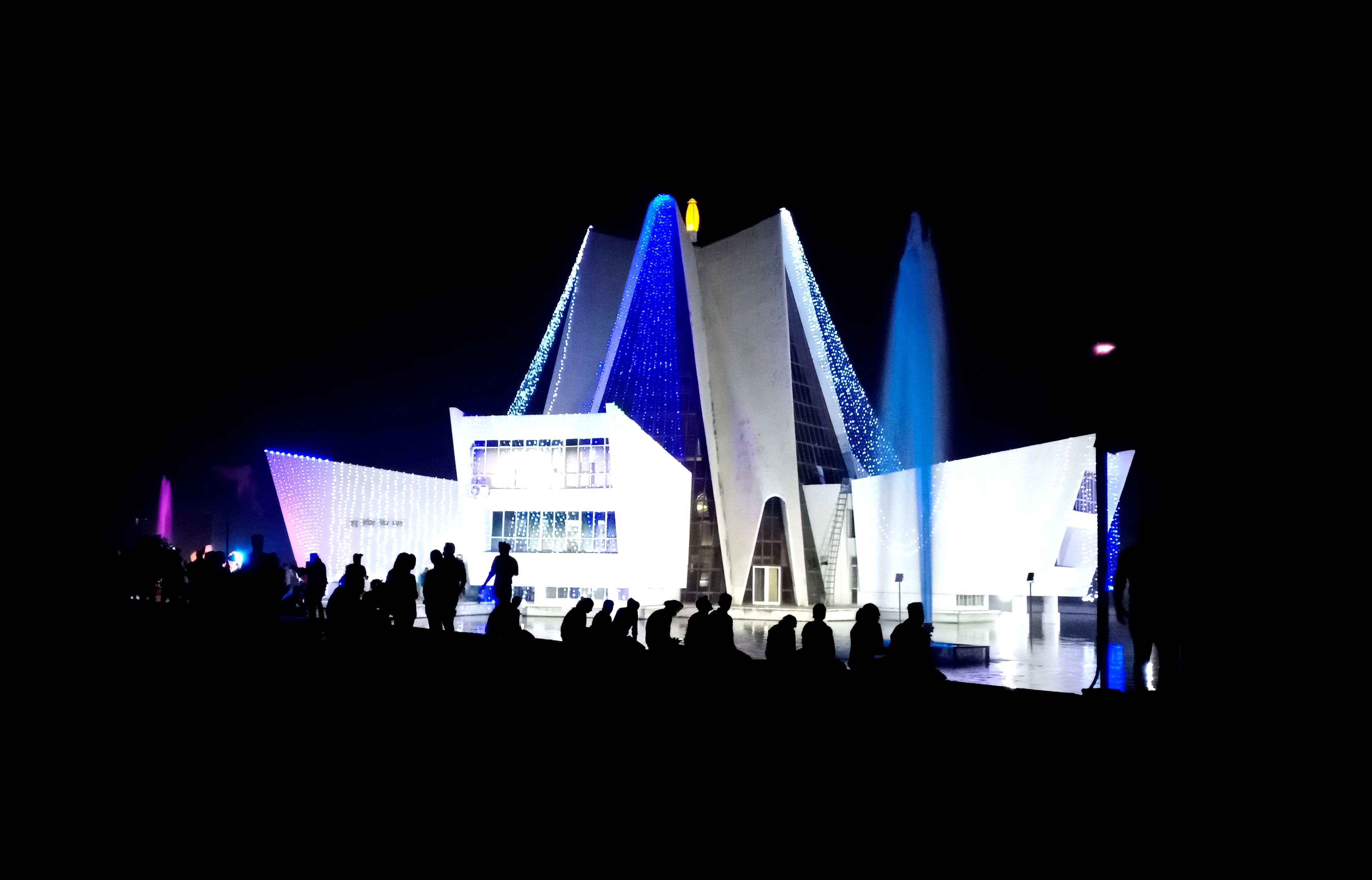 Night view of Punjabi University, Patiala (PUNJAB)